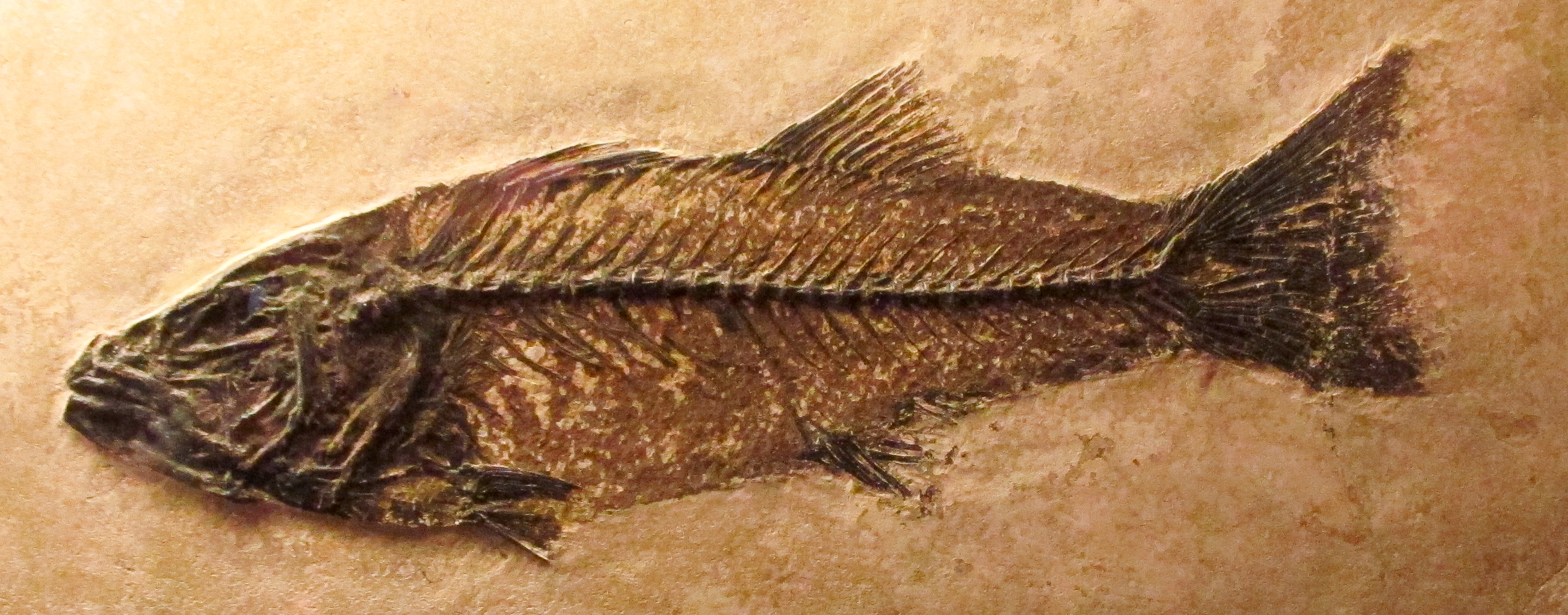 50 Million years old fossil of mioPlossus labracoides from the early eocene period. It's closest living relatives are the "yellow perches". Picture taken at the "Smithsonian National Museum of Natural History", Washington D.C, USA.